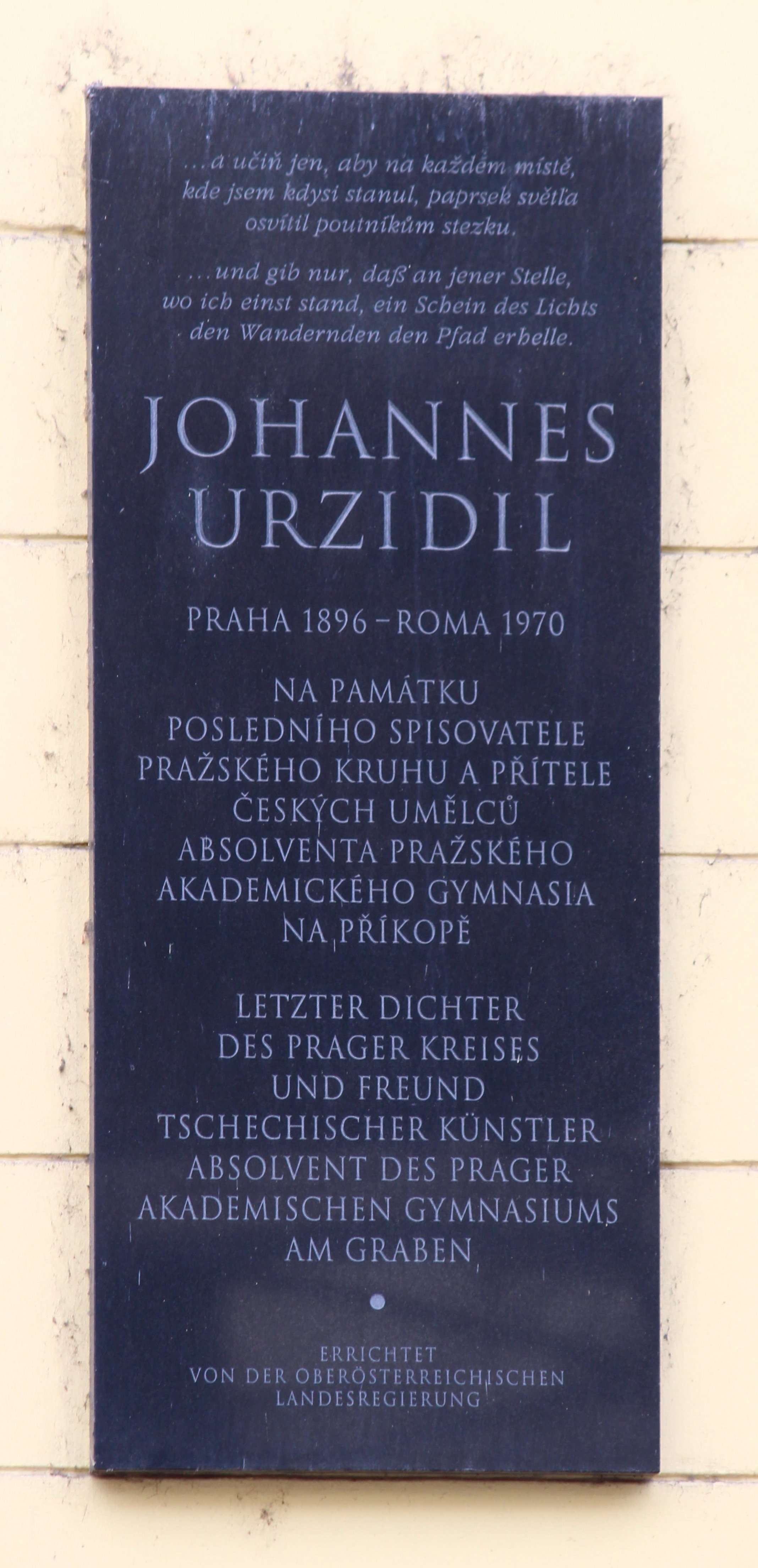 Johannes Urzidil memorial plaque in Prague, Na Prikope 16 (former German grammar school)